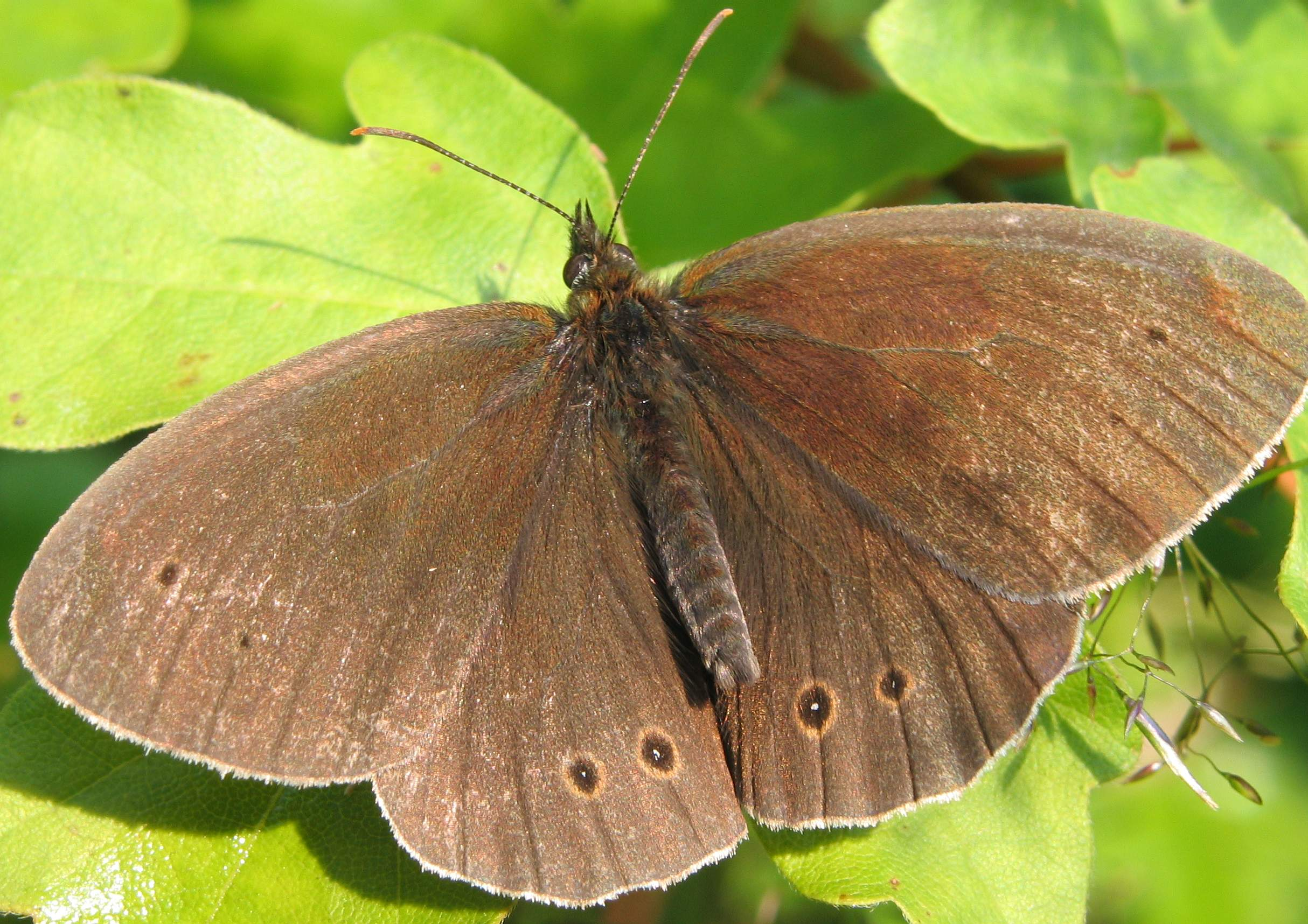 Author: soebe Date: July 09, 2005 Location: Kropp, Northern Germany